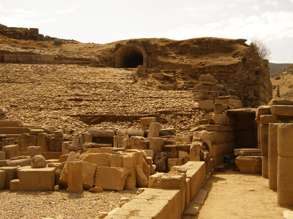 The ruins of the Ancient Greek theatre in the site of Alabanda, in Turkey.